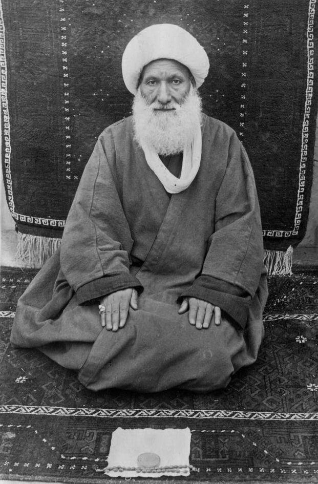 Ali Akbar Nahavandi (1861, Nahavand - 8 February 1950, Mashhad), Iranian Twelver Shia cleric. Picture taken after finished a Salāt (after Taslim), probably in Shrine of Imam Reza, Mashhad in the 1940s.